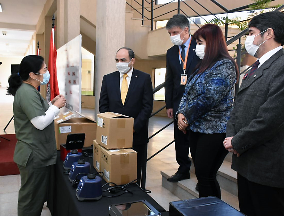 Assistance to Paraguay for diagnostics of COVID-19 COVID-19 equipments donated by the IAEA to Paraguay, received at the Health Sciences Research Institute (IICS) of the National University of Asunción (UNA). The activity took place in the university campus in the city of San Lorenzo, with the presence of the national chancellor, Ambassador Antonio Rivas Palacios; the rector of the UNA, Prof. Dr. Zully Vera de Molinas; the General Director of the IICS, Mario Fabián Martínez Mora; and the Director of the National Atomic Energy Commission (CNEA), Javier Barúa. 9 June 2020 The International Atomic Energy Agency (IAEA) is dispatching equipment to countries around the world to enable them to use a nuclear-derived technique to rapidly detect the coronavirus that causes COVID-19. This emergency assistance is part of the IAEA's response to requests for support from Member States in controlling an increasing number of infections worldwide. Photo Credit: National University of Asunción